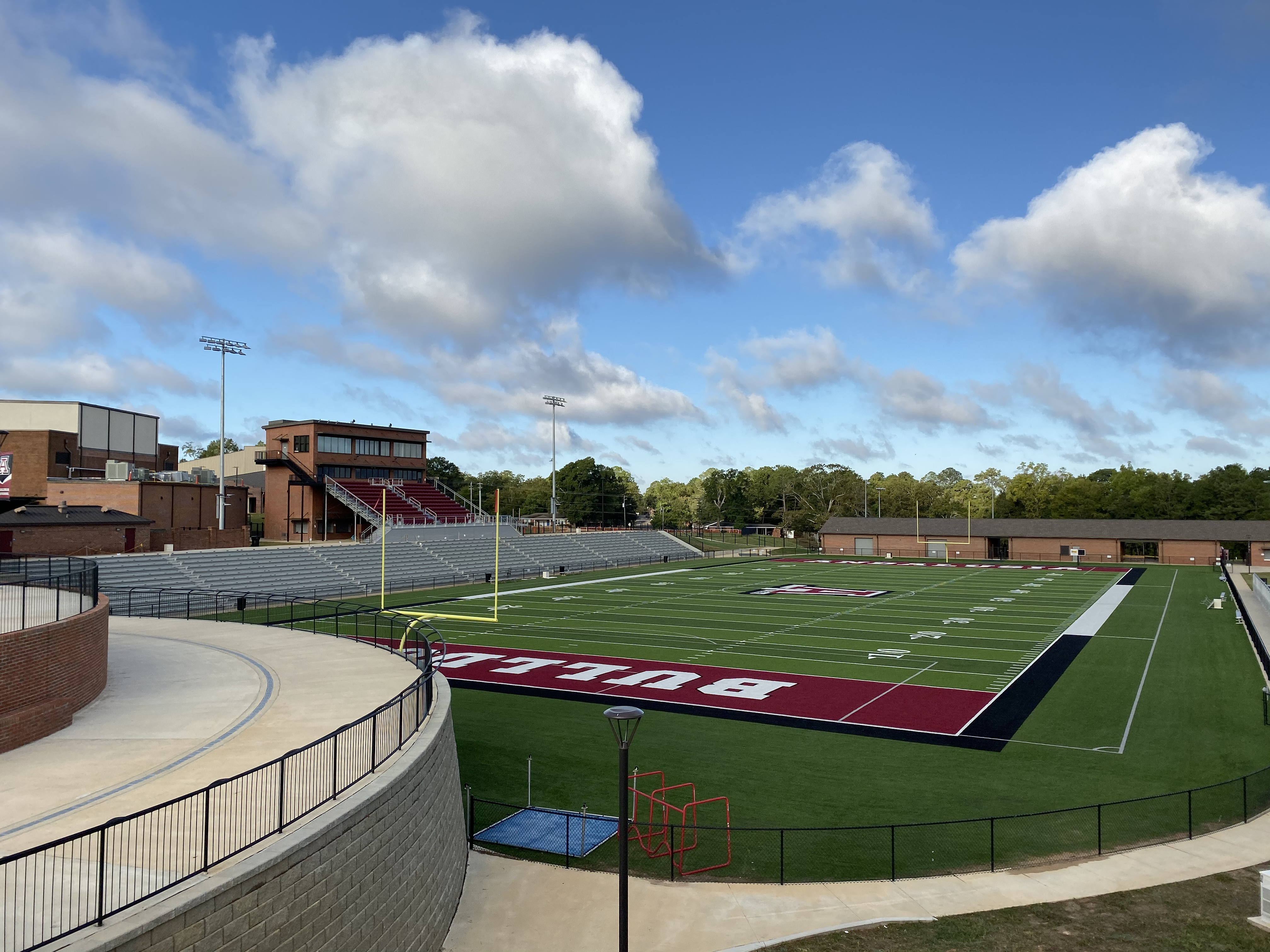 A view from the end zone of renovated Andalusia High School stadium.